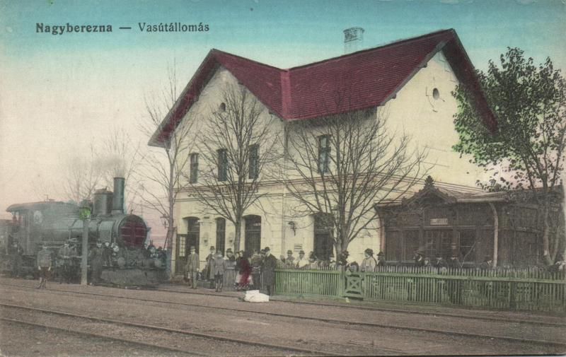 Railway station in Welykyi Bereznyi and steam locomotive MÁV 370